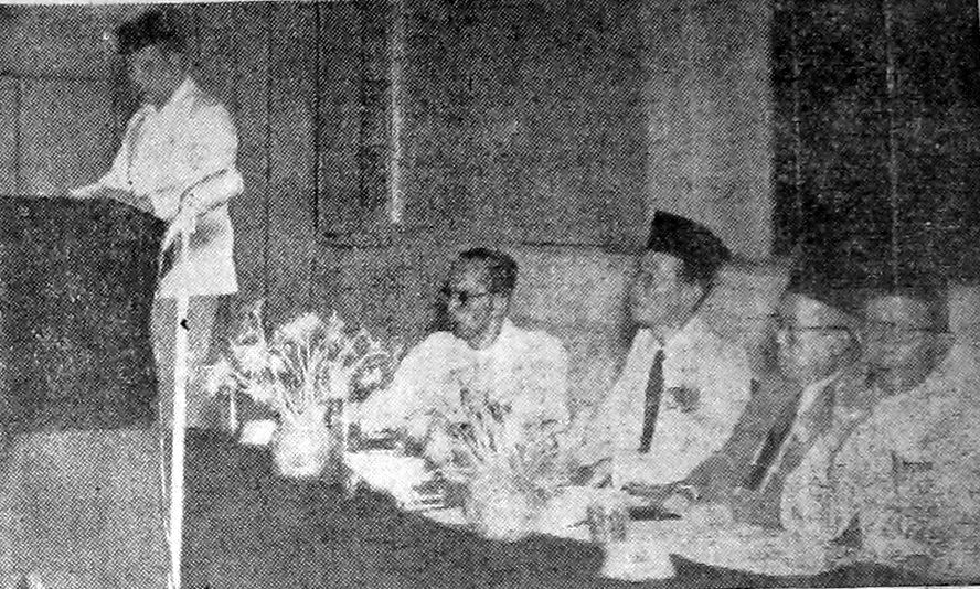 Fakih Usman delivering a speech at the 40th anniversary of Muhammadiyah